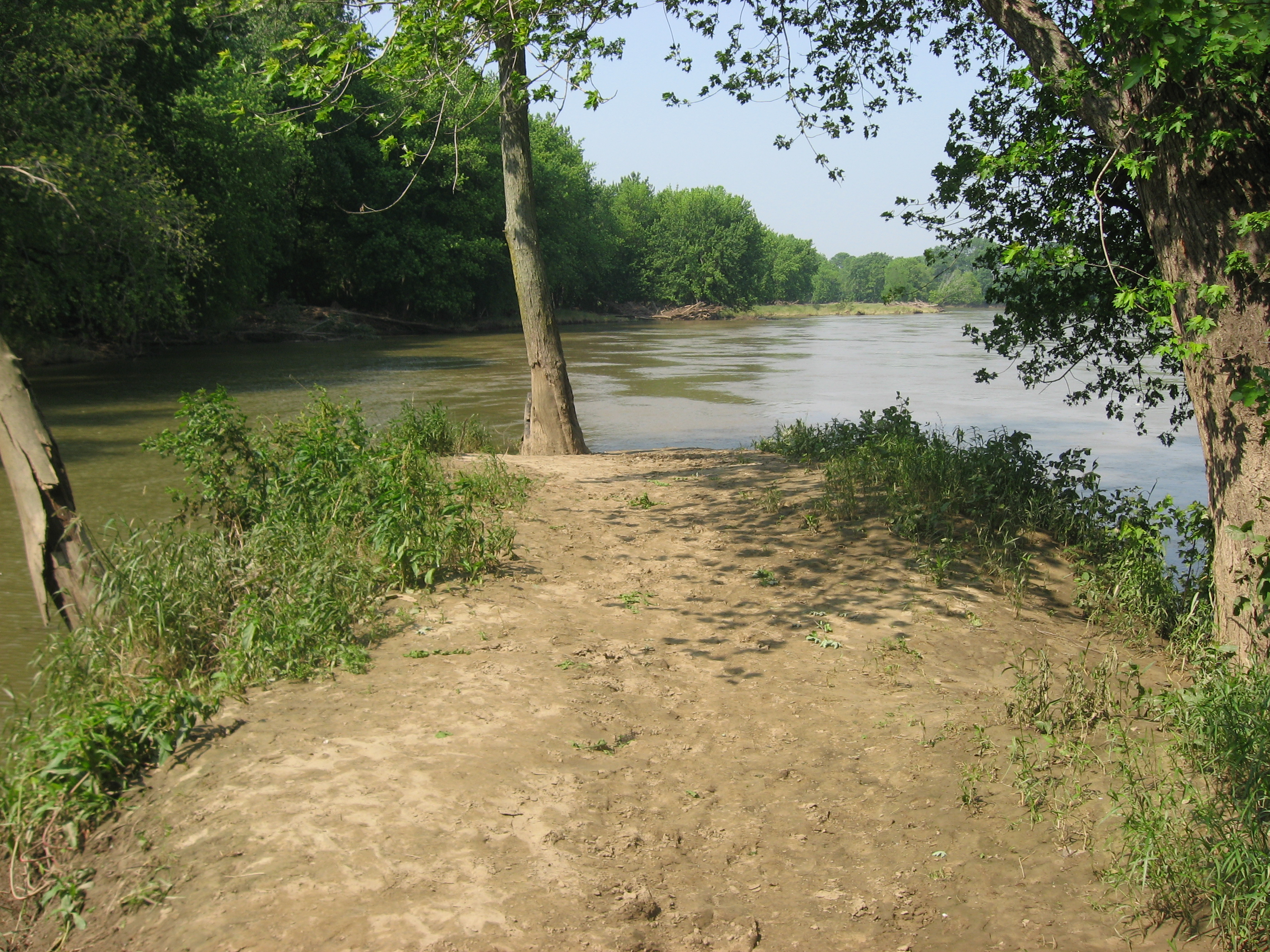 Overview of Sunset Point, located at the confluence of Deer Creek and the Wabash River just southwest of Delphi, Indiana, United States. Besides being a scenic location, it was the spot of significant activity along the Wabash and Erie Canal, and it is an archaeological site. As such, it is listed on the National Register of Historic Places.